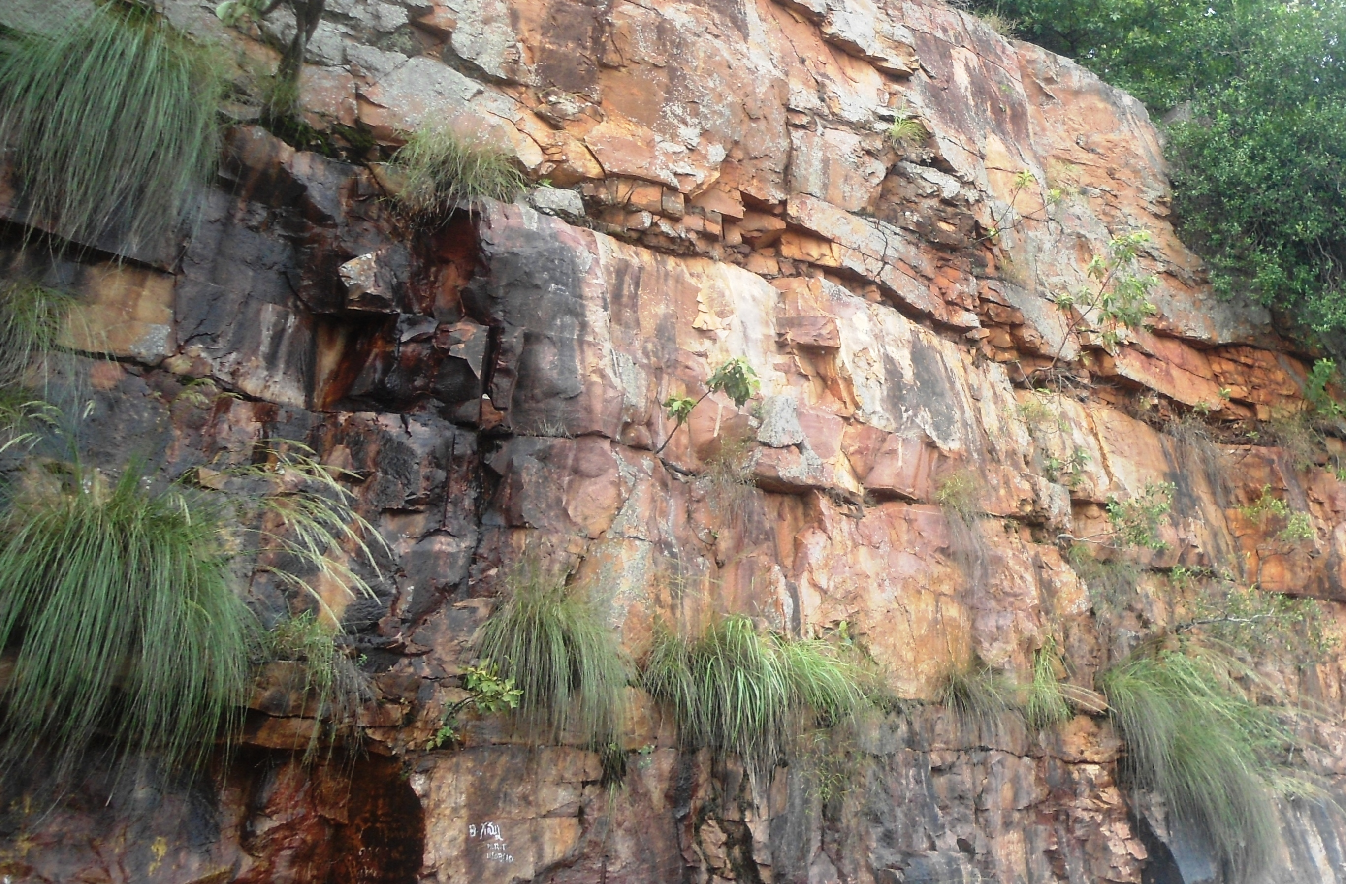 Archaean rocks of Tirumala Hills on Ghatroad, Tirupati